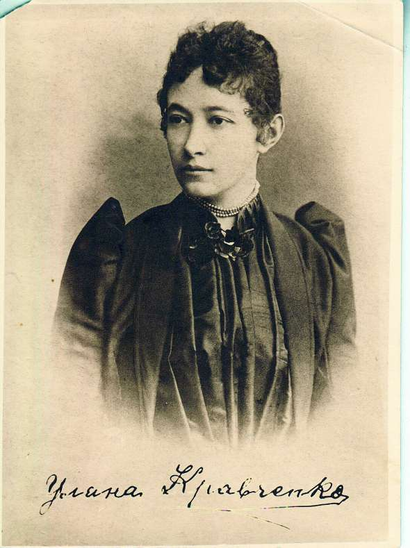 Uliana Kravchenko 1893